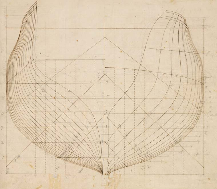 Drawing of the hull for the frigates U.S.S. Constellation (1797) and the U.S.S. Congress (1799). pencil and ink on paper 14 × 18 in (35.6 × 45.7 cm)